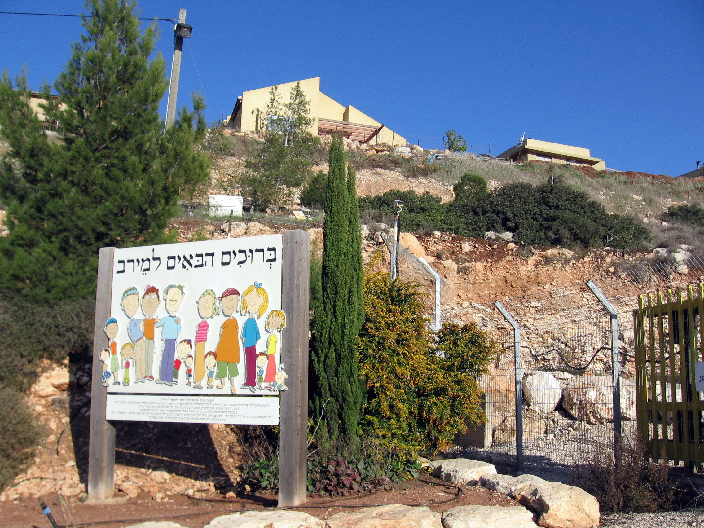 Kibbutz Meirav entrance Unknown